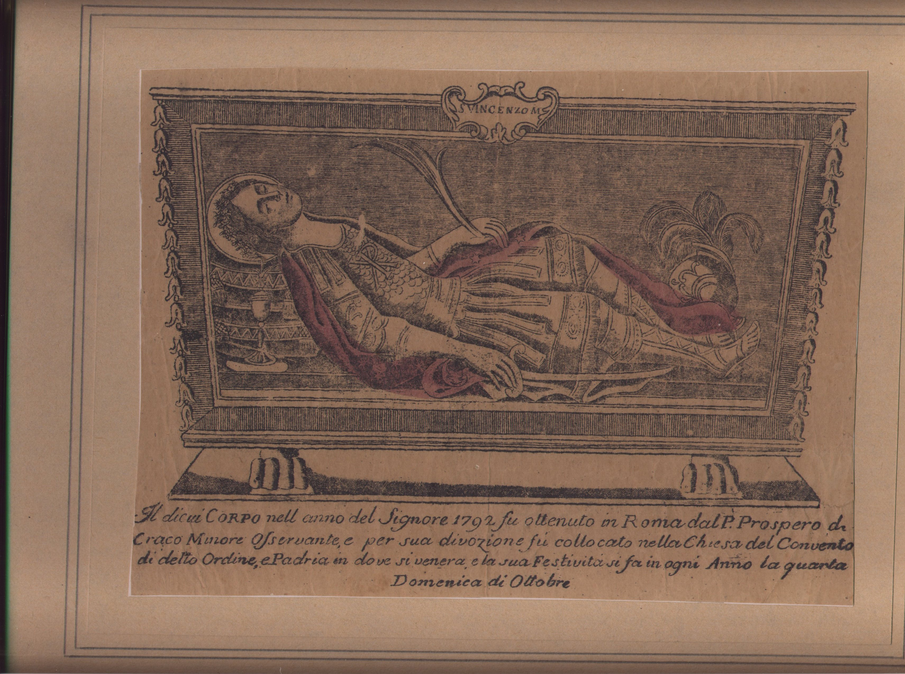 Image of woodcut print of San Vincenzo c.1890s